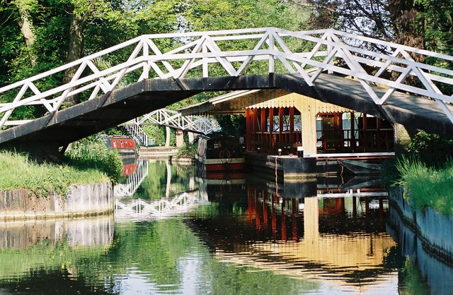 Below Greenham Lock. A towpath footbridge crosses a basin on the Kennet & Avon Canal